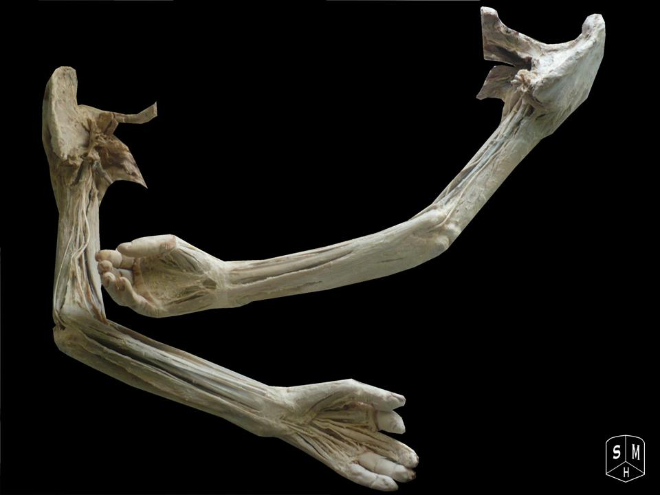 Plastination